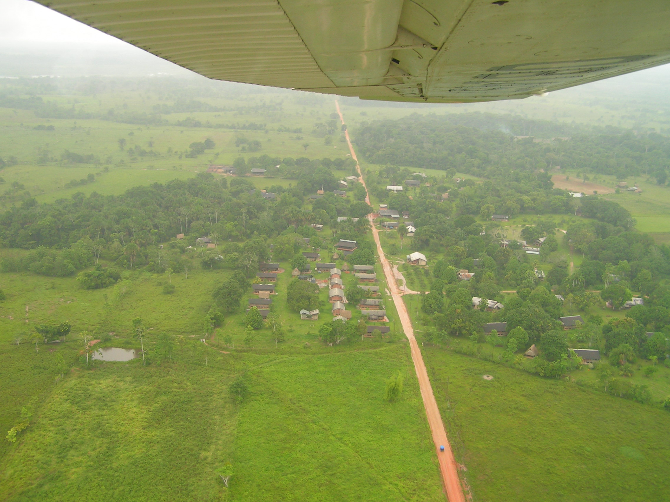 the Swiss mission base in pucallpa, Peru